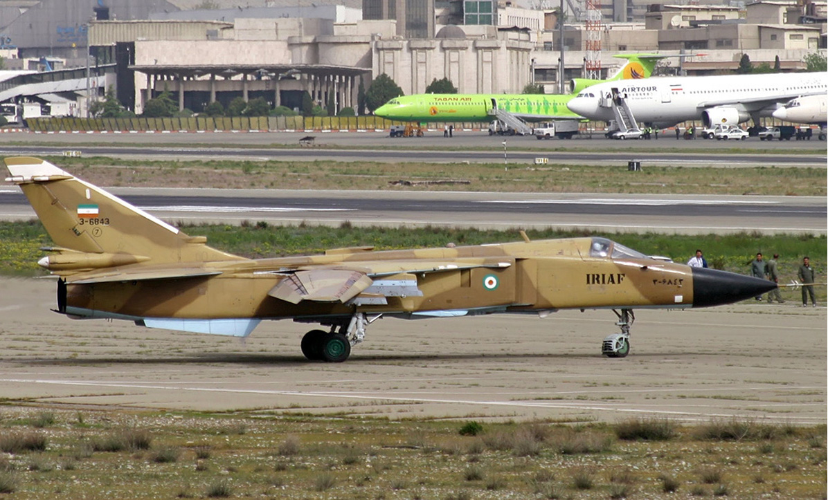 A IRIAF Su-24 ready to takeoff from Mehrabad International Airport for a training flight.